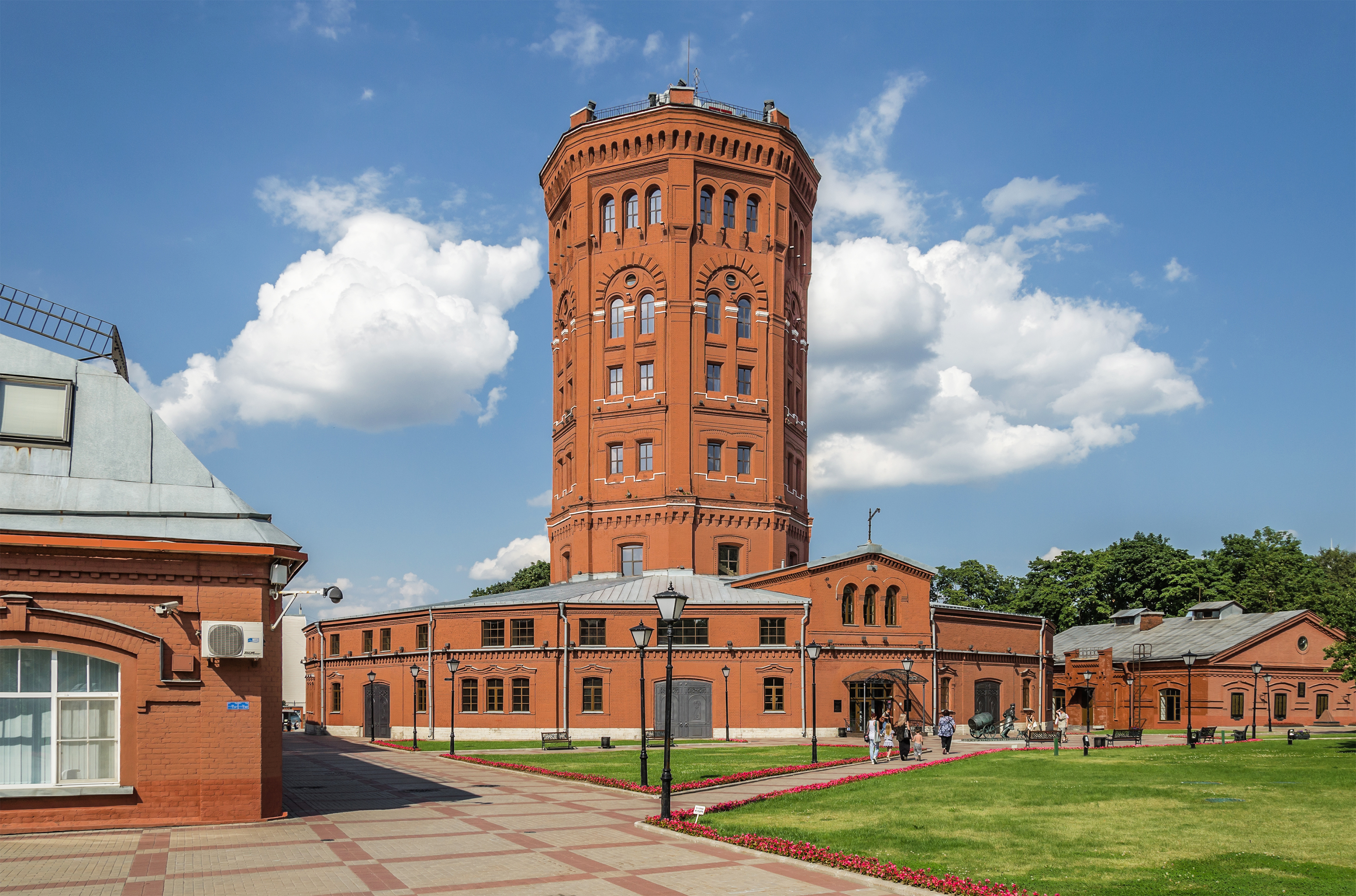 The Universe of Water Museum complex in Saint Petersburg